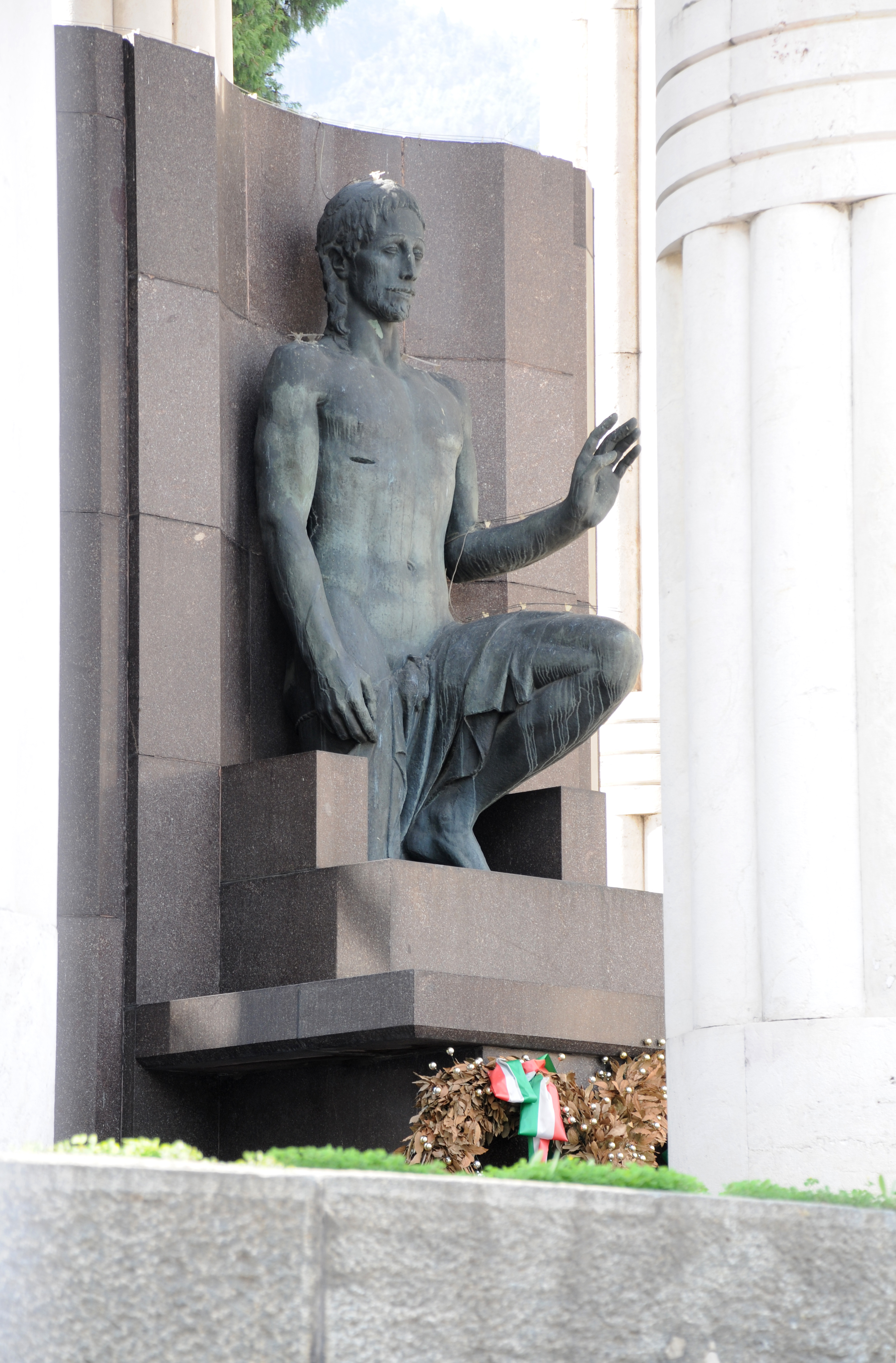 Christ, sculpture by Libero Andreotti in the Siegesdenkmal - Monumento alla Vittoria in Bozen Bolzano Italy